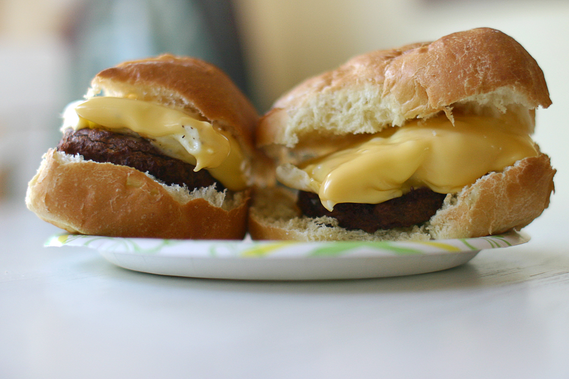 Breatfast roll Original description: Vegetarian morningstar sausage with organic free-range egg and cheese on a roll.